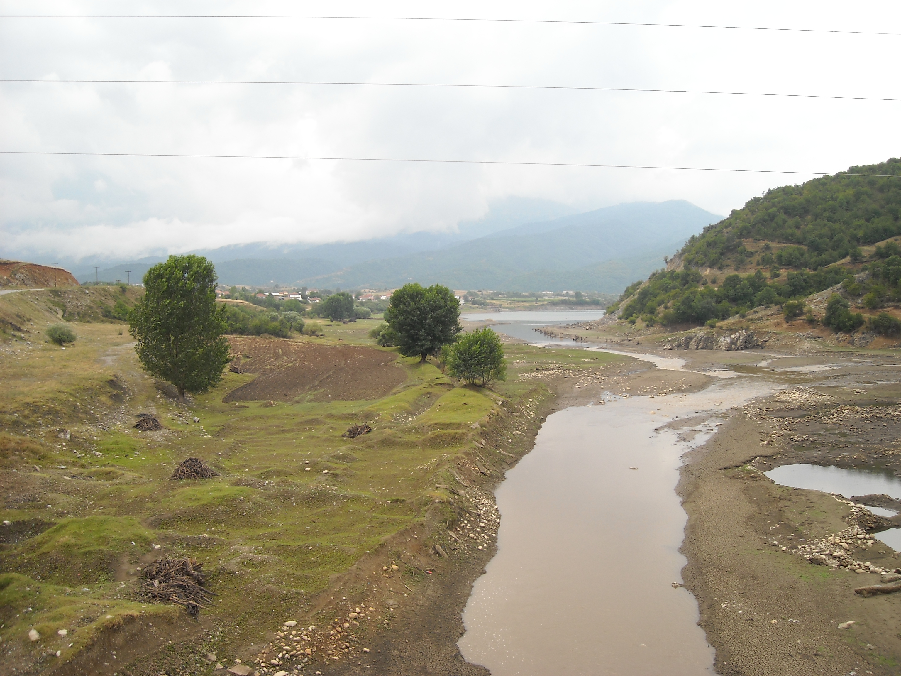 Dospat River at its mouth.